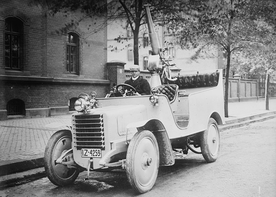 A German World War I anti-aircraft vehicle of the Rheinische Metallwaren- und Maschinenfabrik AG, Düsseldorf (Germany).